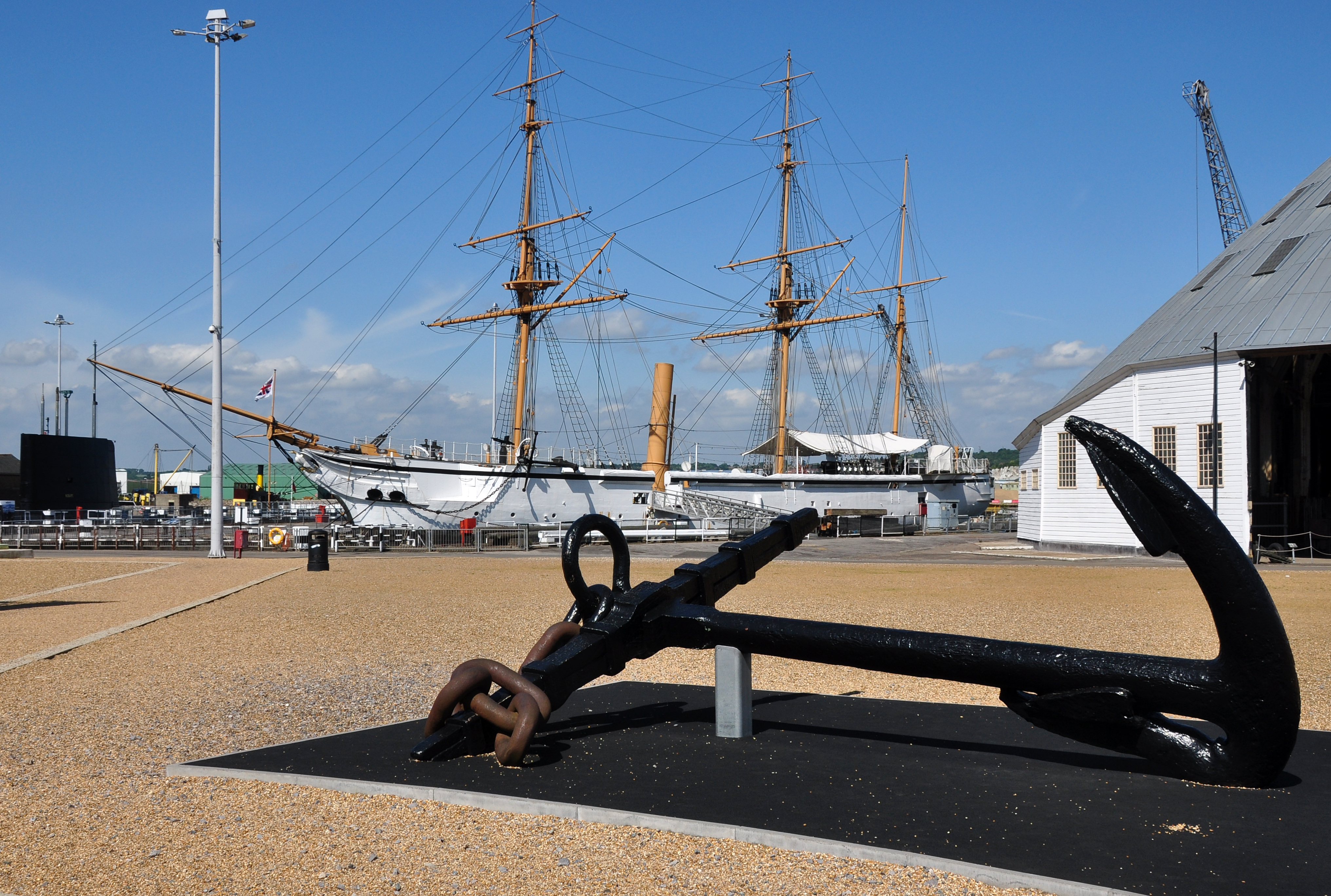 An anchor in front of HMS Gannet in Chatham Dockyard, Kent.